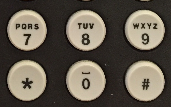 Detail of keypad with # as the hash key (contrast File:Detail-Tastatur-FeTAp-751-1982.JPG with a style of ⌗ not readily recognisable as a #)